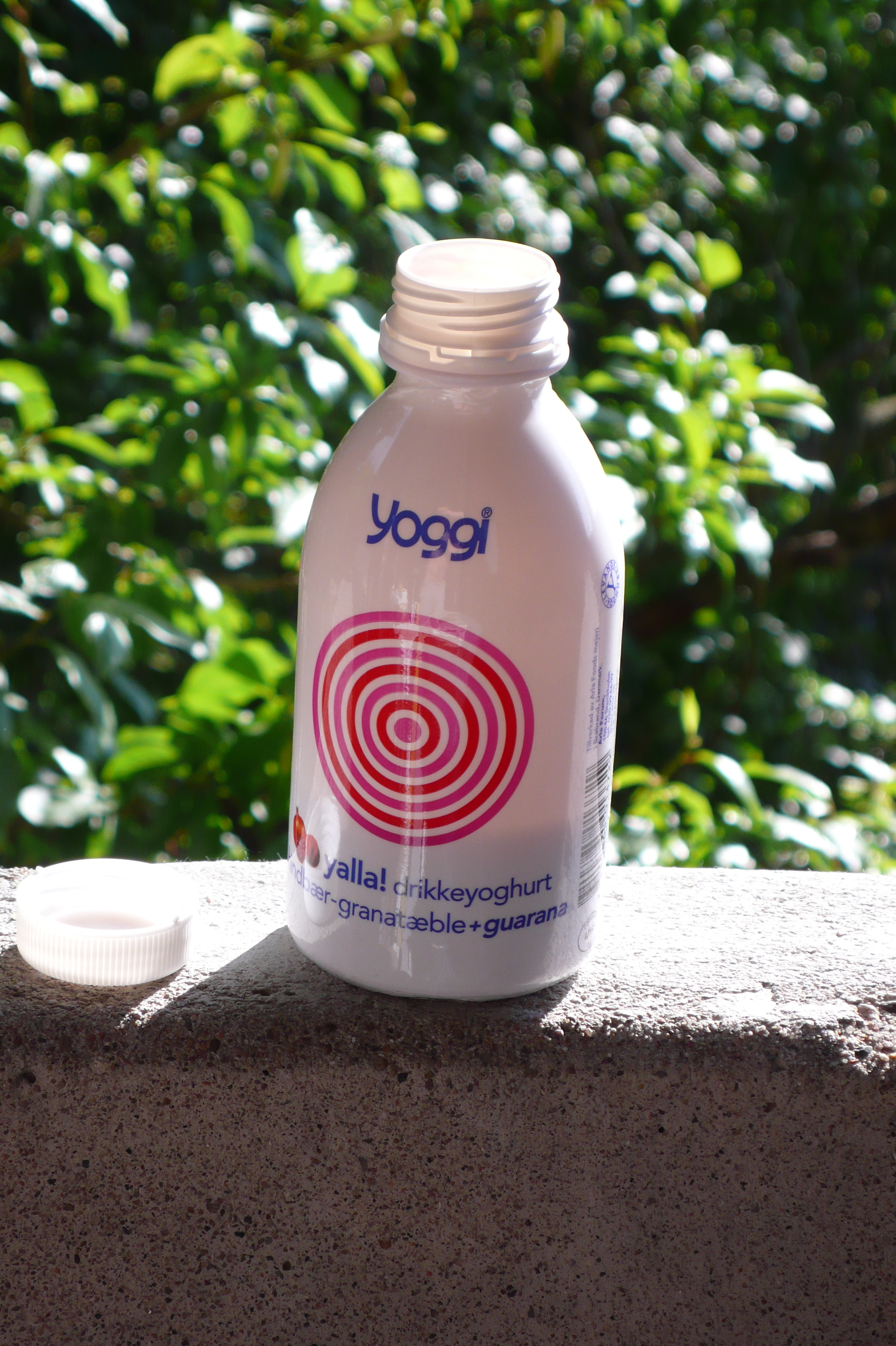 bottle of swedish yoggi yalla